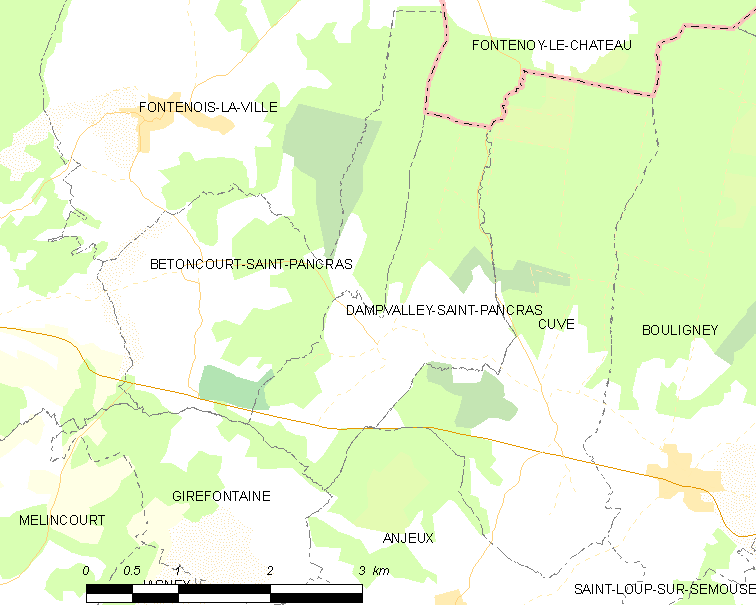 Map of French municipality